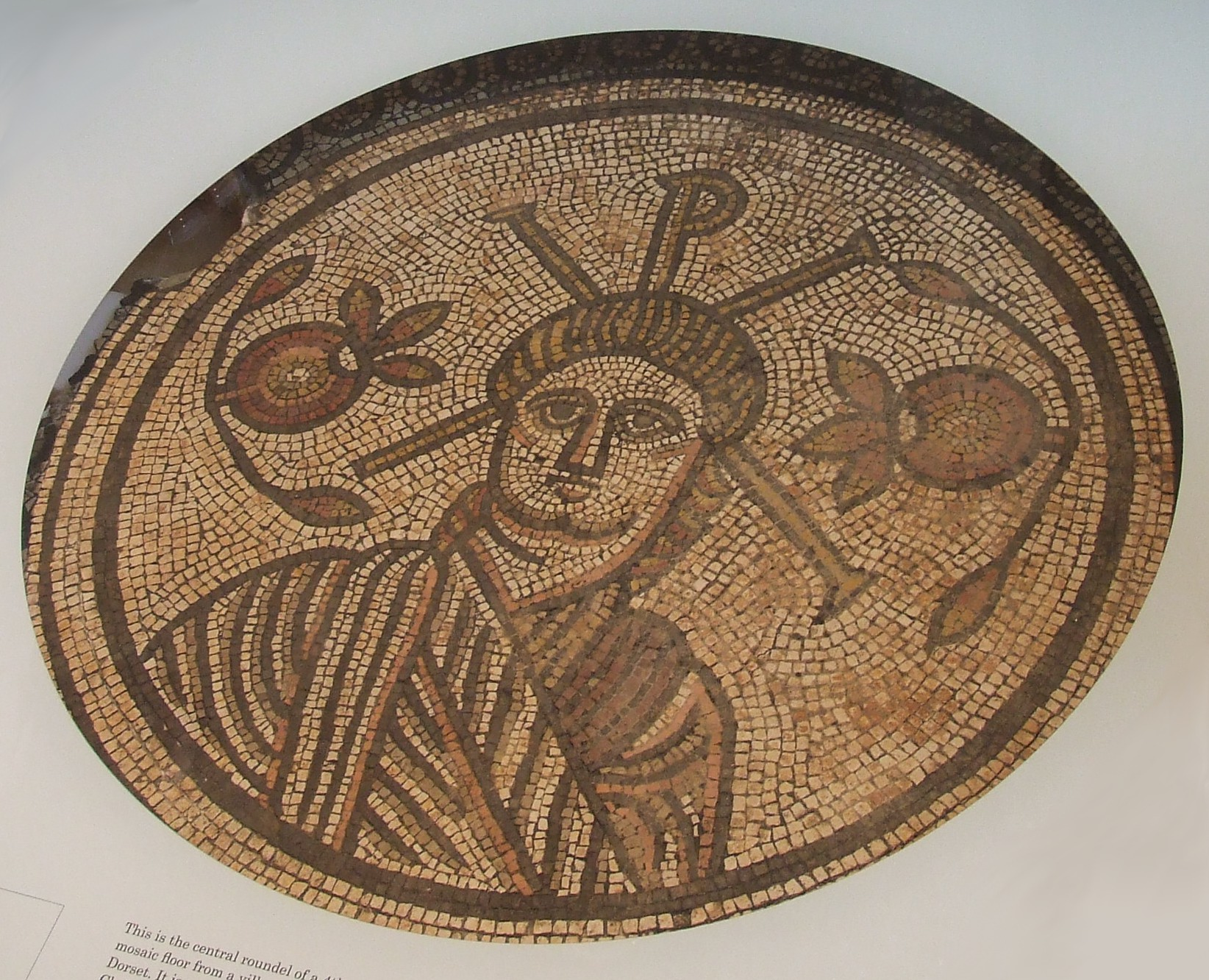 Roundel mosaic of christ from Hinton St Mary, now in the British Museum. This is one of the earliest depictions of Christ. The grey border has been edited to remove people's hands